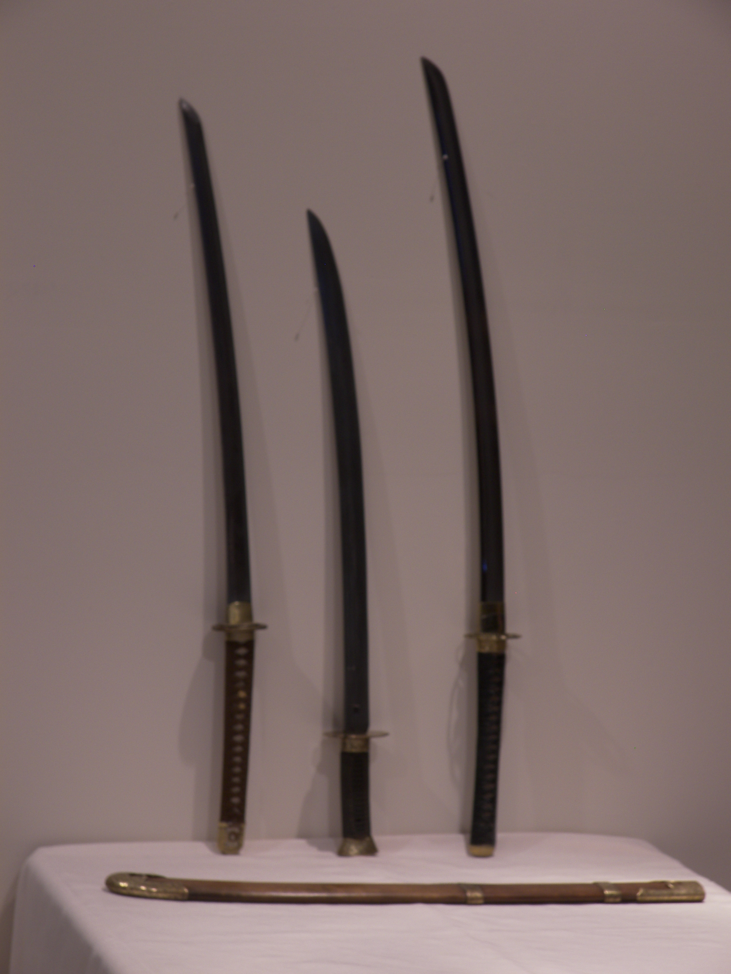 Korean TO (single-handed saber; approximately 32" in length) displayed between a conventional Korean 2-handed saber (R) and a Japanese counterpart (L)